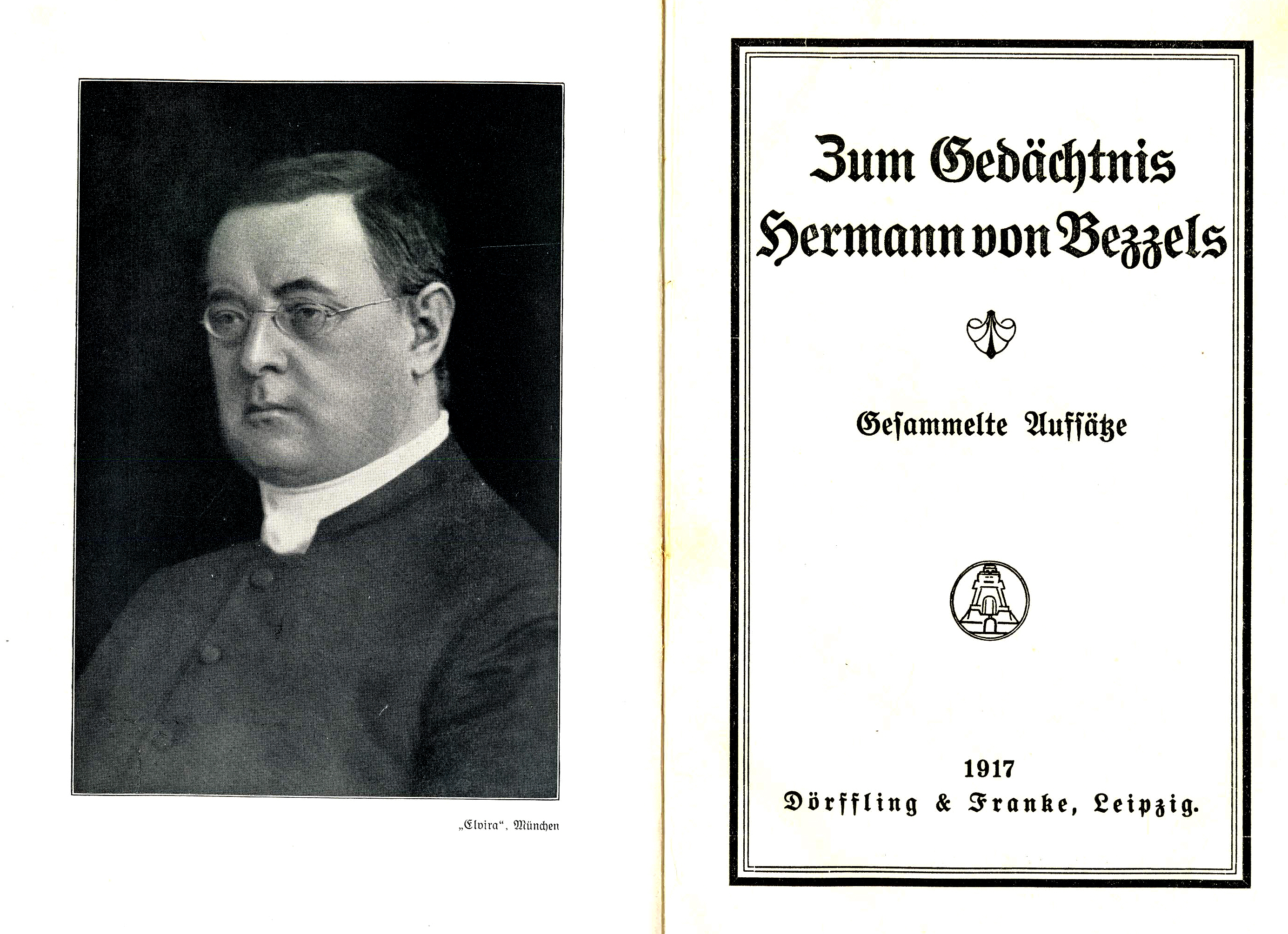 Cover of the book "Laible, Wilhelm/Ernst Bezzel/Pfarrer Götz u.a.: Zum Gedächtnis Hermann von Bezzels. Gesammelte Aufsätze. Leipzig 1917."